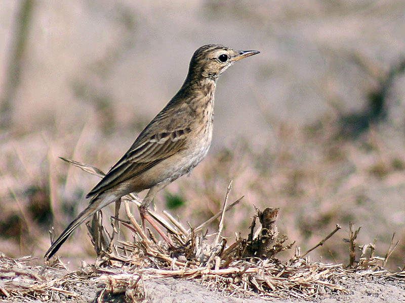 Richard's Pipit Anthus richardi at Hodal in Faridabad District of Haryana, India.